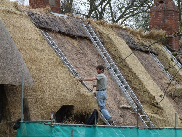 Anne Hathaway's cottage Detail of thatching